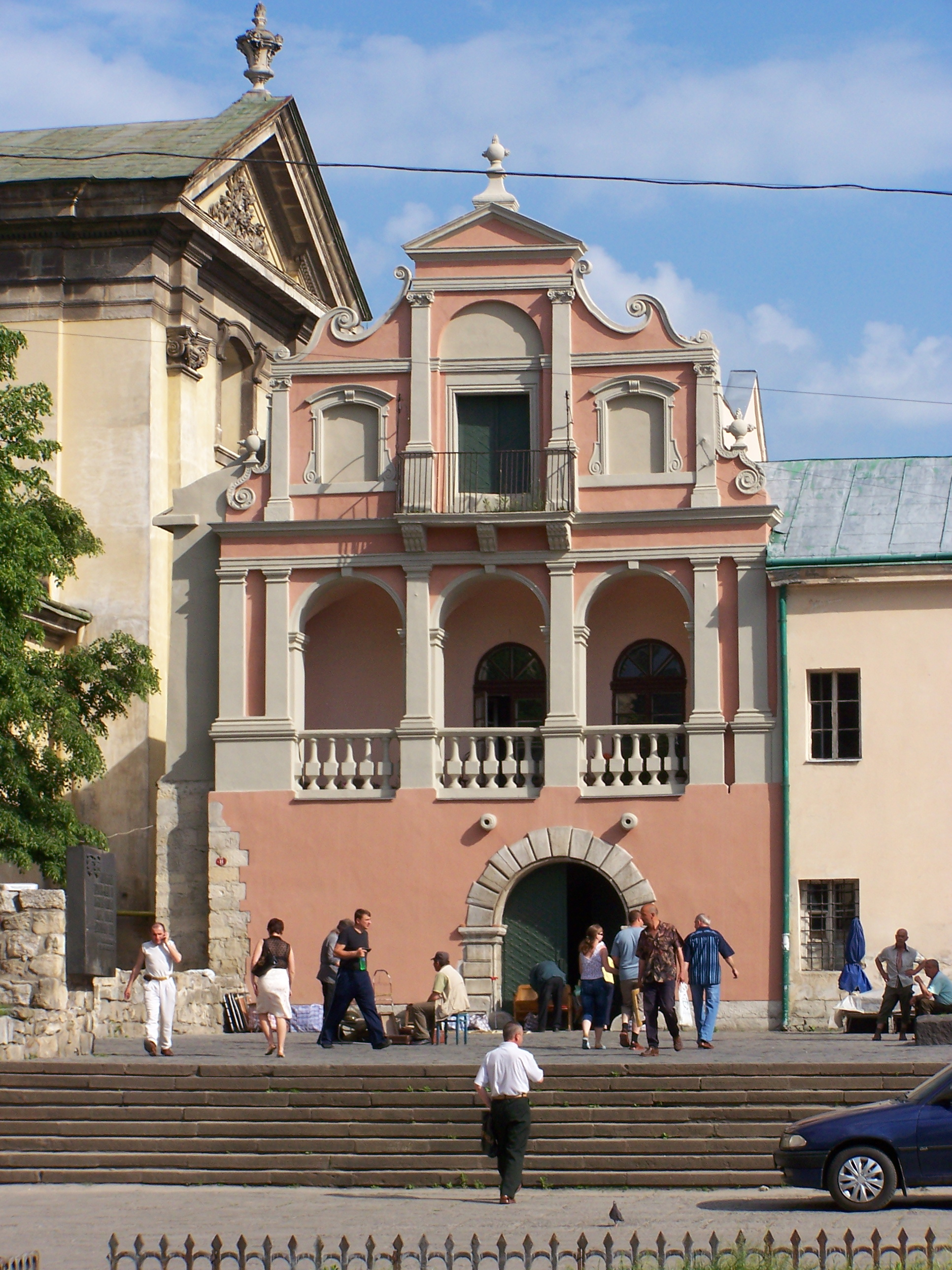 Royal Arsenal in Lviv (Ukraine).